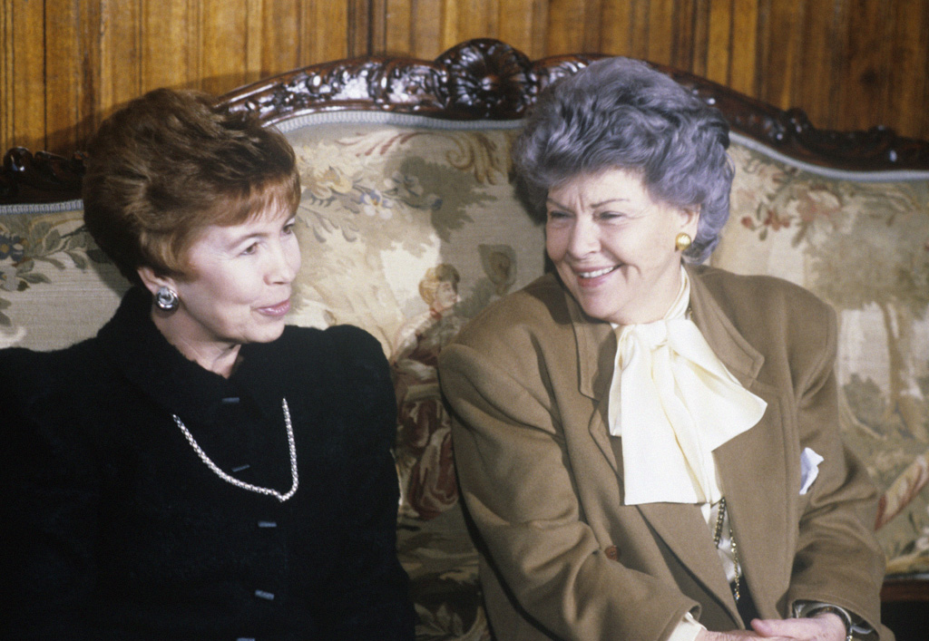 “Aenne Burda, head of "Burda" firm (West Germany), visiting Moscow”. Raisa Gorbacheva and Aenne Burda, the head of the "Burda" firm (West Germany), meeting in the mansion of the USSR Ministry of Foreign Affairs. Moscow. 1987.